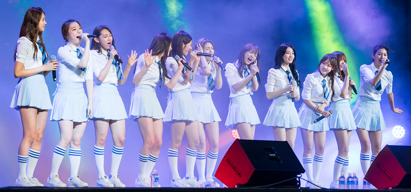 I.O.I performing at Seongnam Park concert